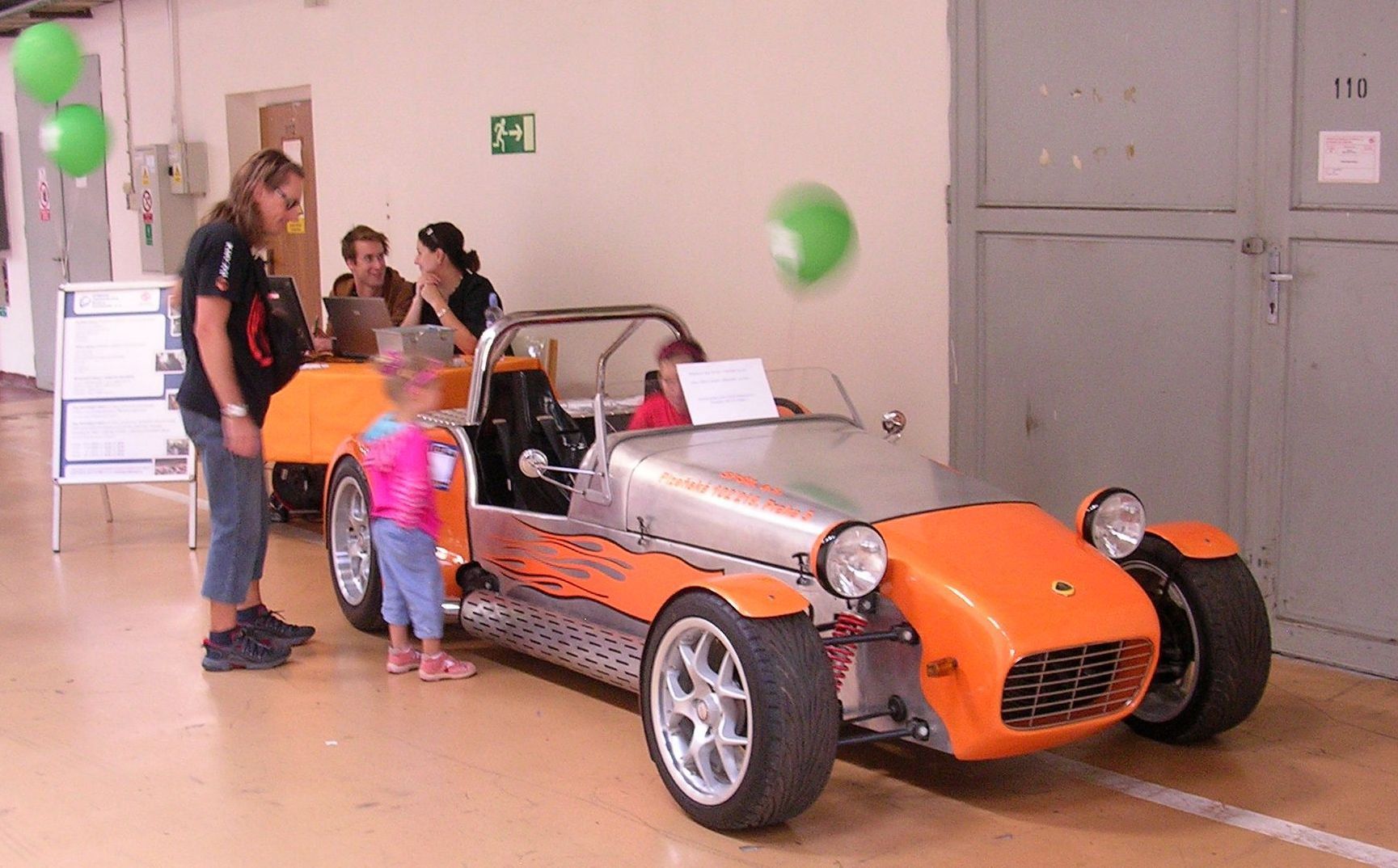 Třebonice, Prague, the Czech Republic. Open Doors Day in Zličín metro depot. A racing automobile near the presentation of High Technical School of Transportation of Prague Transport Company.